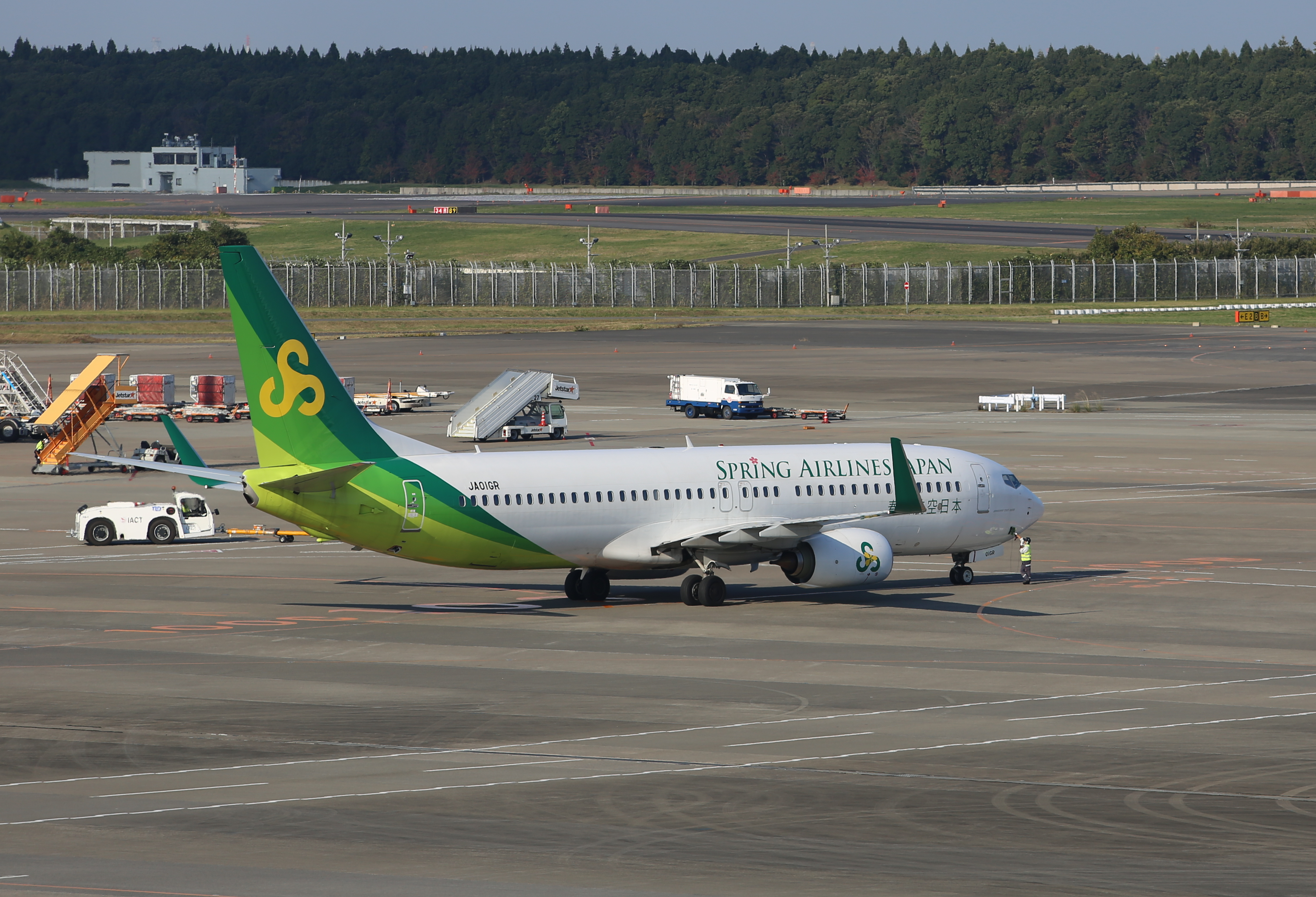 Narita International Airport